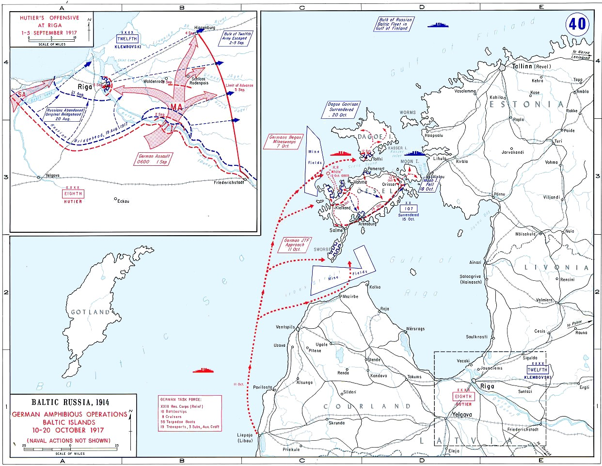 Map showing amphibious operations of Operation Albion, Baltic Islands, 10 - 20 October 1917, and Hutier's Offensive at Riga 1 - 5 September 1917 (inset)